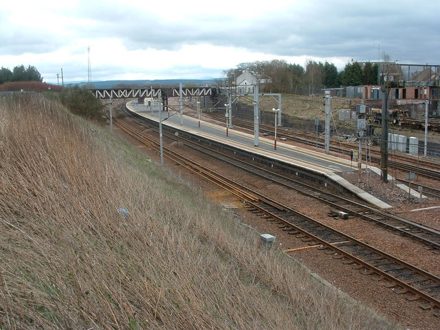 Carstairs Junction